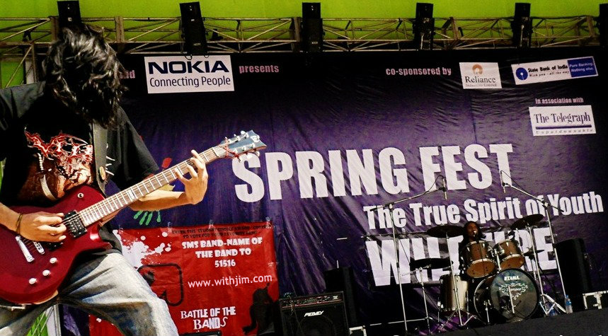 Spring Fest 2012, IIT Kharagpur, West Bangal, India. (Photo - Jim Ankan Deka)